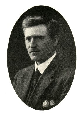 Anton Magnus Aure, Norwegian teacher, nynorsk enthusiast, editor, collector of books and bibliographer.